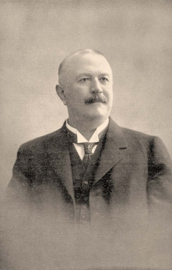 Károly Telbisz, a Bulgarian-born in Banat, was a political figure in the Austro-Hungarian Monarchy and mayor of Timişoara for a long time.